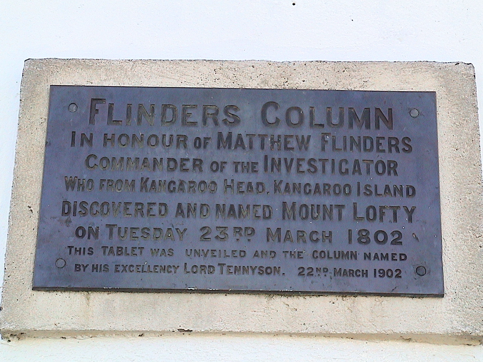 Flinders Column dedication plaque, from 1902, at Mount Lofty, South Australia. Original filename = DSC02372.JPG